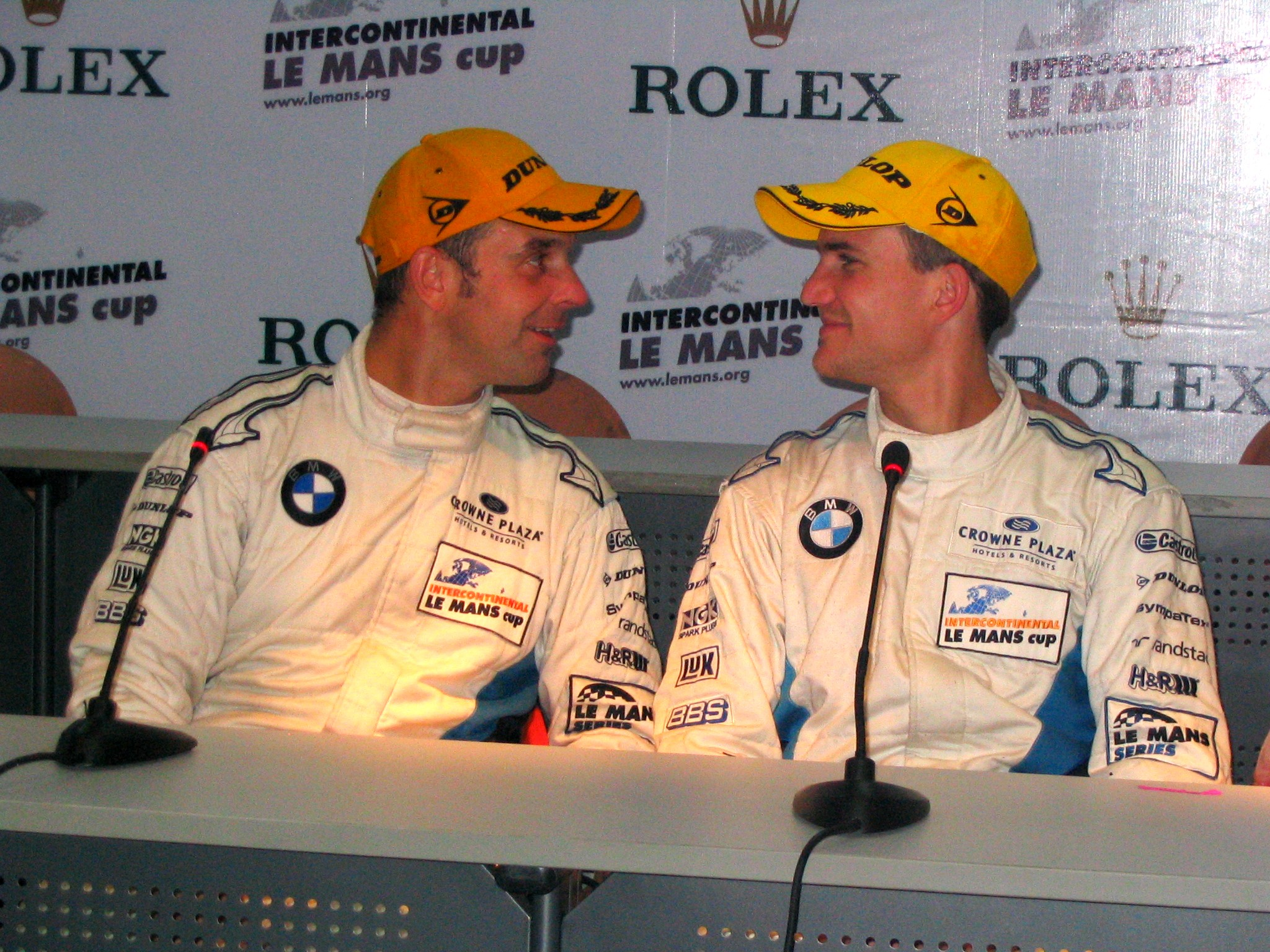 BMW M3 GTR drivers Jörg Müller (left) and Dirk Werner (right) at the post race press conference in Zhuhai after the Intercontinental Le Mans Cup race.